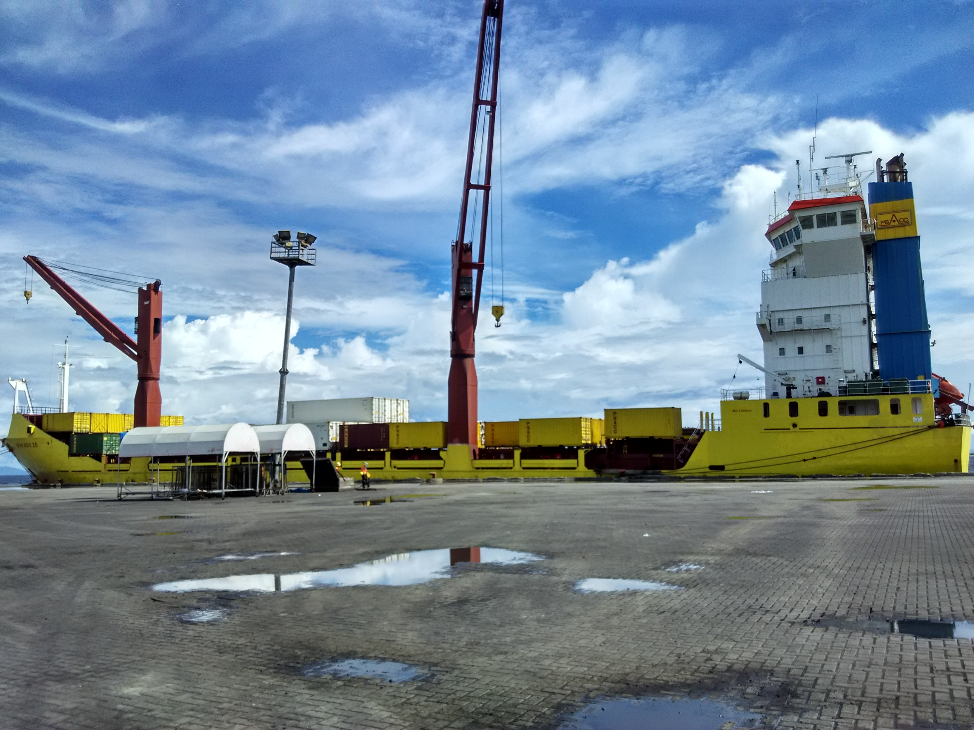 Span Asia 25 docked at the Zamboanga International Seaport. Filipino Ship Enthusiast Coalition